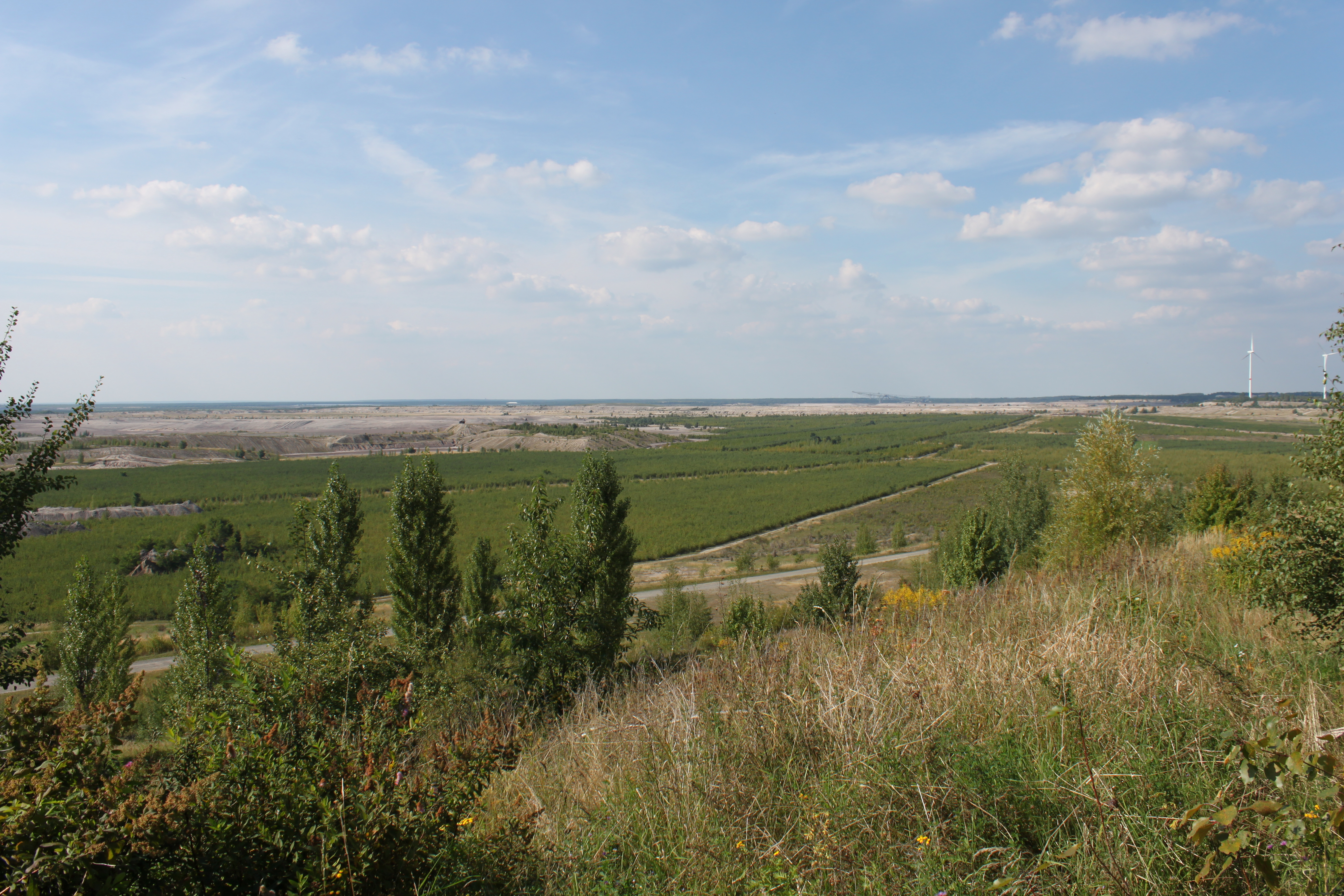 Open mining, Kostebrau